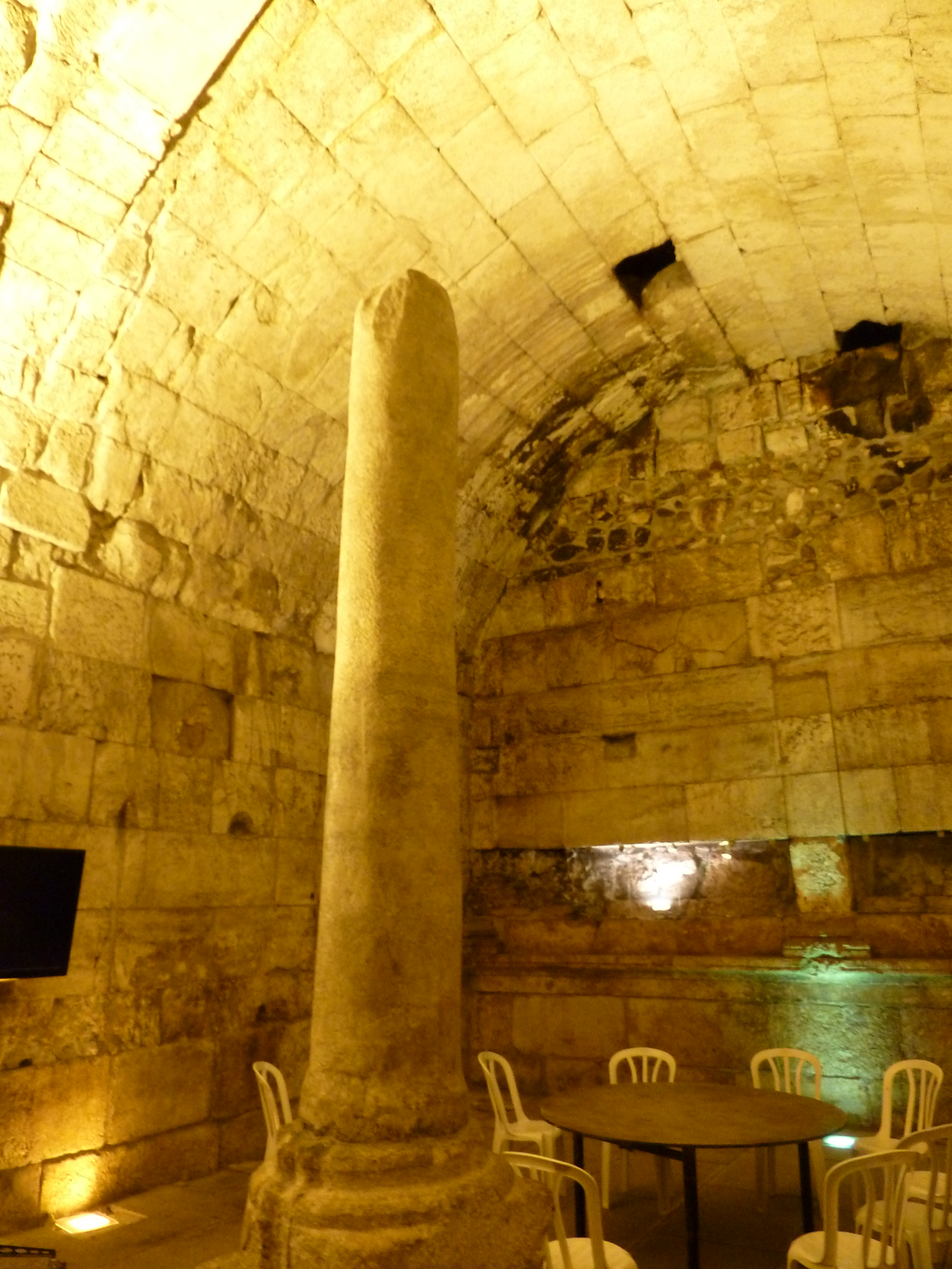 The Masonic Hall, Jerusalem